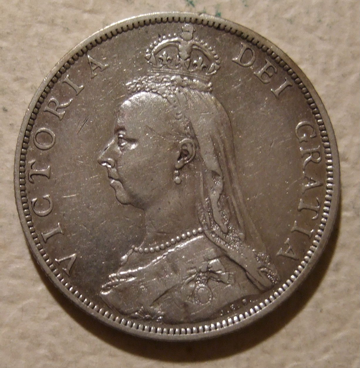 1888 British half crown from the reign of Queen Victoria and also from the year of Jack The Ripper who terrorized London in the fall of 1888.